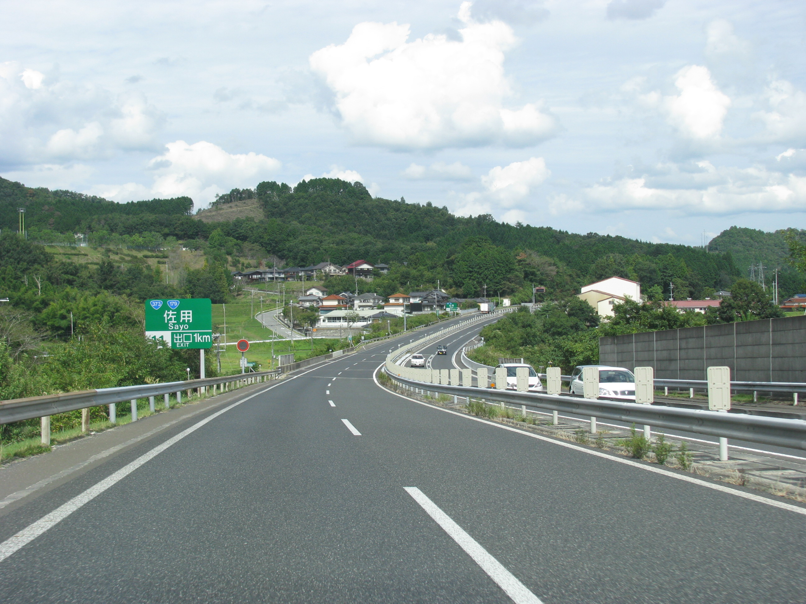 The Chūgoku Expressway. This place is Sayō, Sayō District, Hyōgo, Japan.